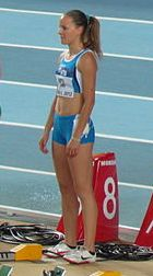 Veronica Borsi at the 2012 IAAF World Indoor Championships in Athletics, March 10, 2012 in the Ataköy Athletics Arena, Istanbul, Turkey.